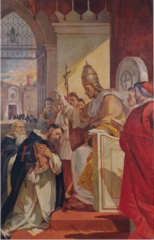 Saint John of Matha receiv the approbation for de new Order